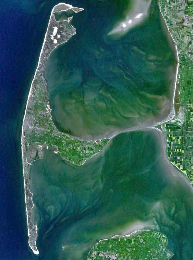 The Island of Sylt in Northern Germany from the South. Satellite view.